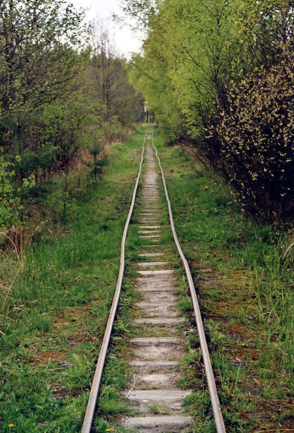 This image shows the Rail tracks of a 600 mm-narrow gauge railway in the Moorland of Soos in northern Bohemia.